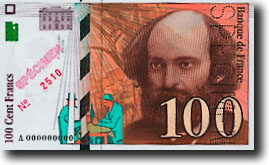 100 francs